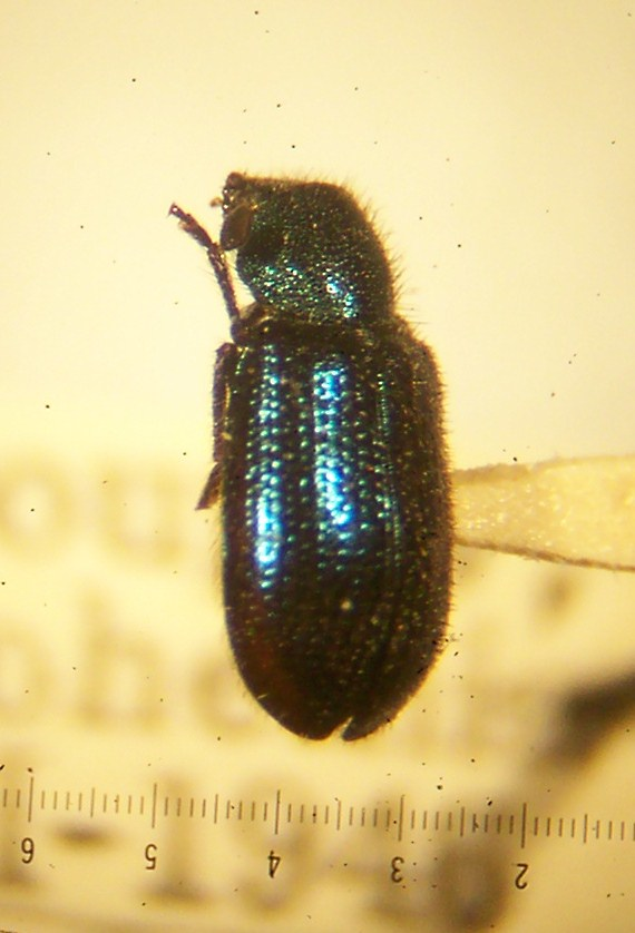 A dorsal and partial pleural view of the species Necrobia violacea, a beetle in the family Cleridae.